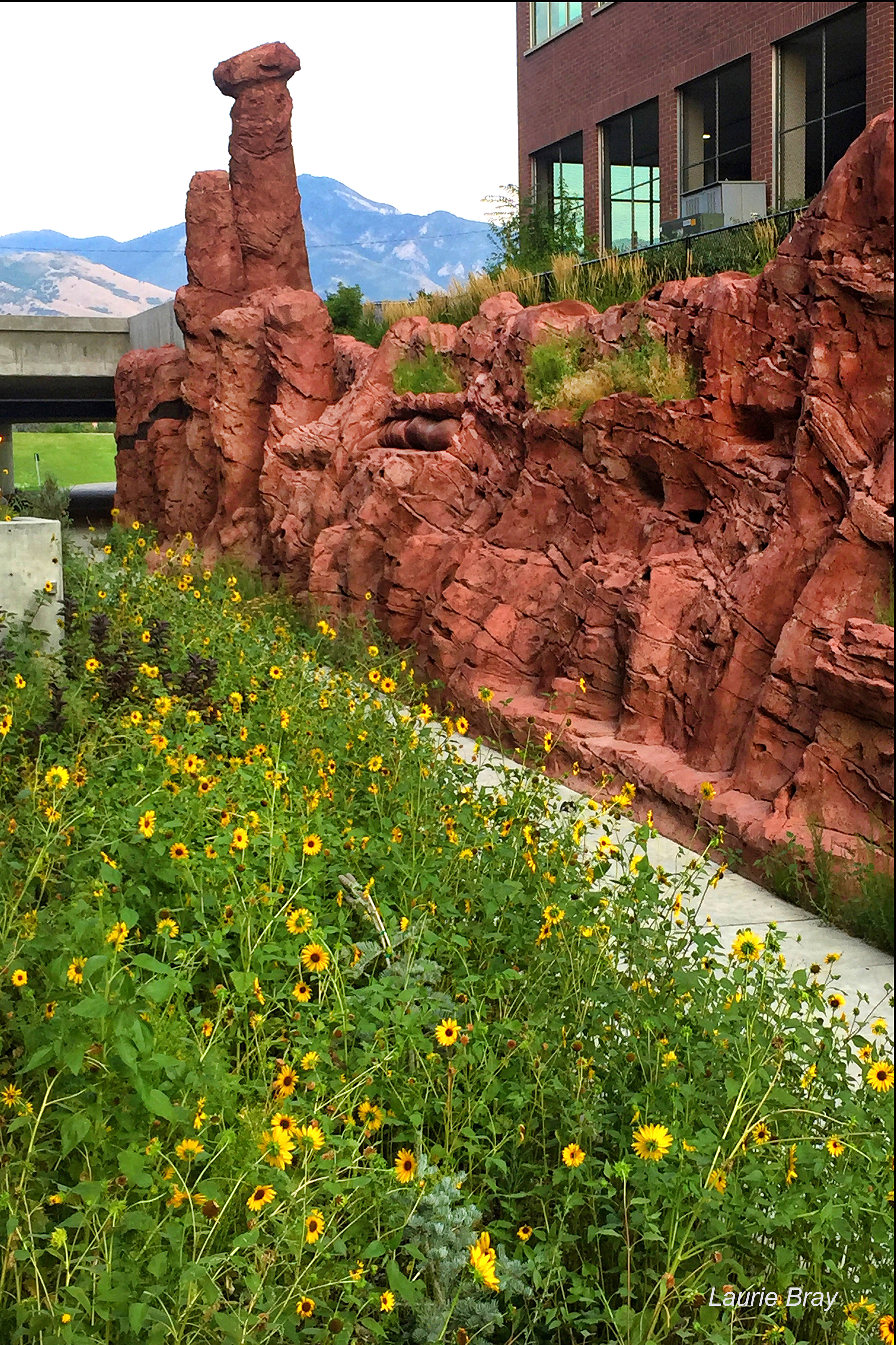 A view walking west to east along the Draw at Sugar House.